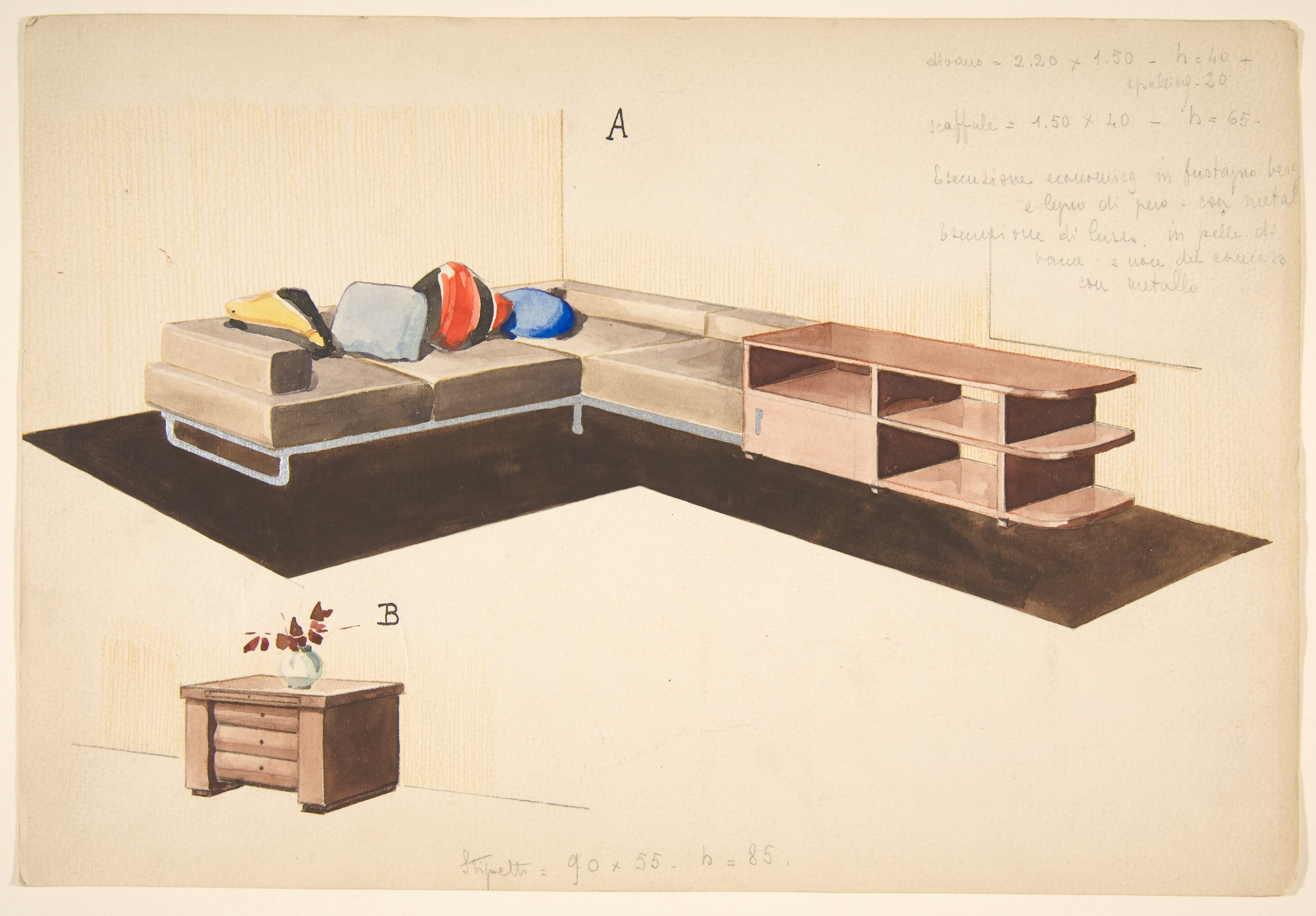 Drawing Ornament & Architecture; Drawings